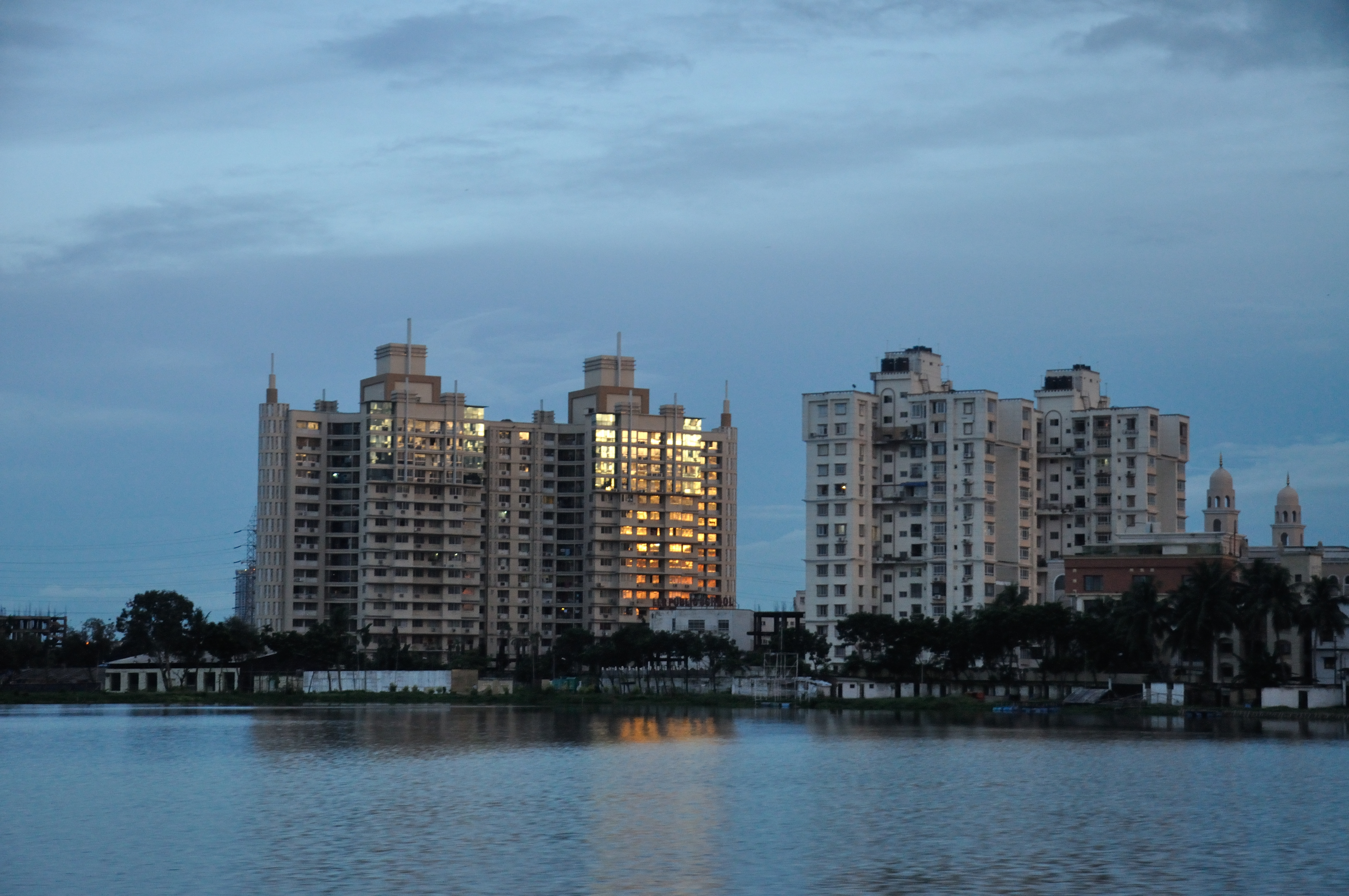 Photographed in Kolkata.